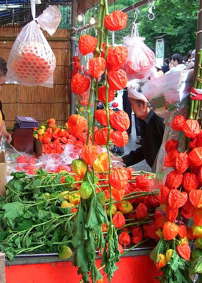 The Ground Cherry Festival at Sensō-ji in Asakusa, Tokyo